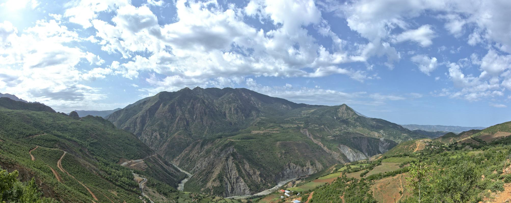 Devoll valley in Gramsh district near Bratilë